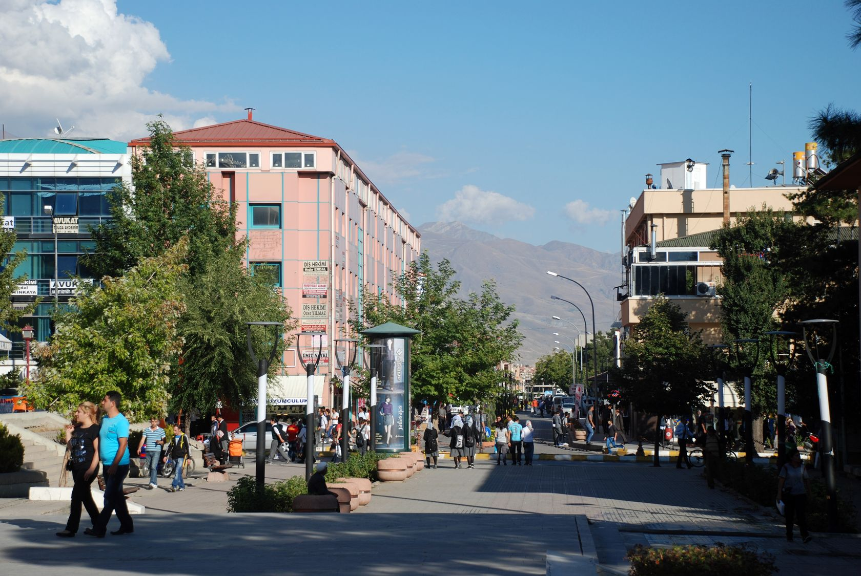 Erzincan, Turkey, center